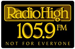 DWLA logo